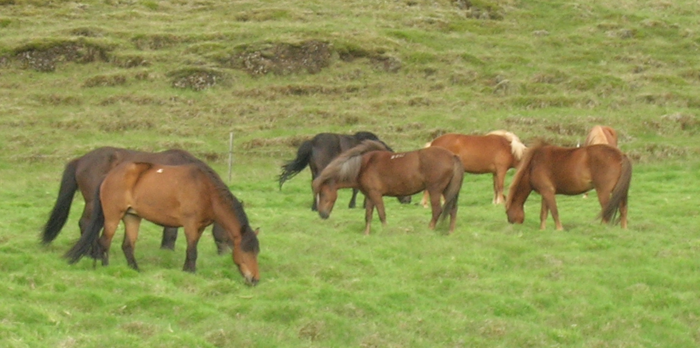 Iclandic horse.